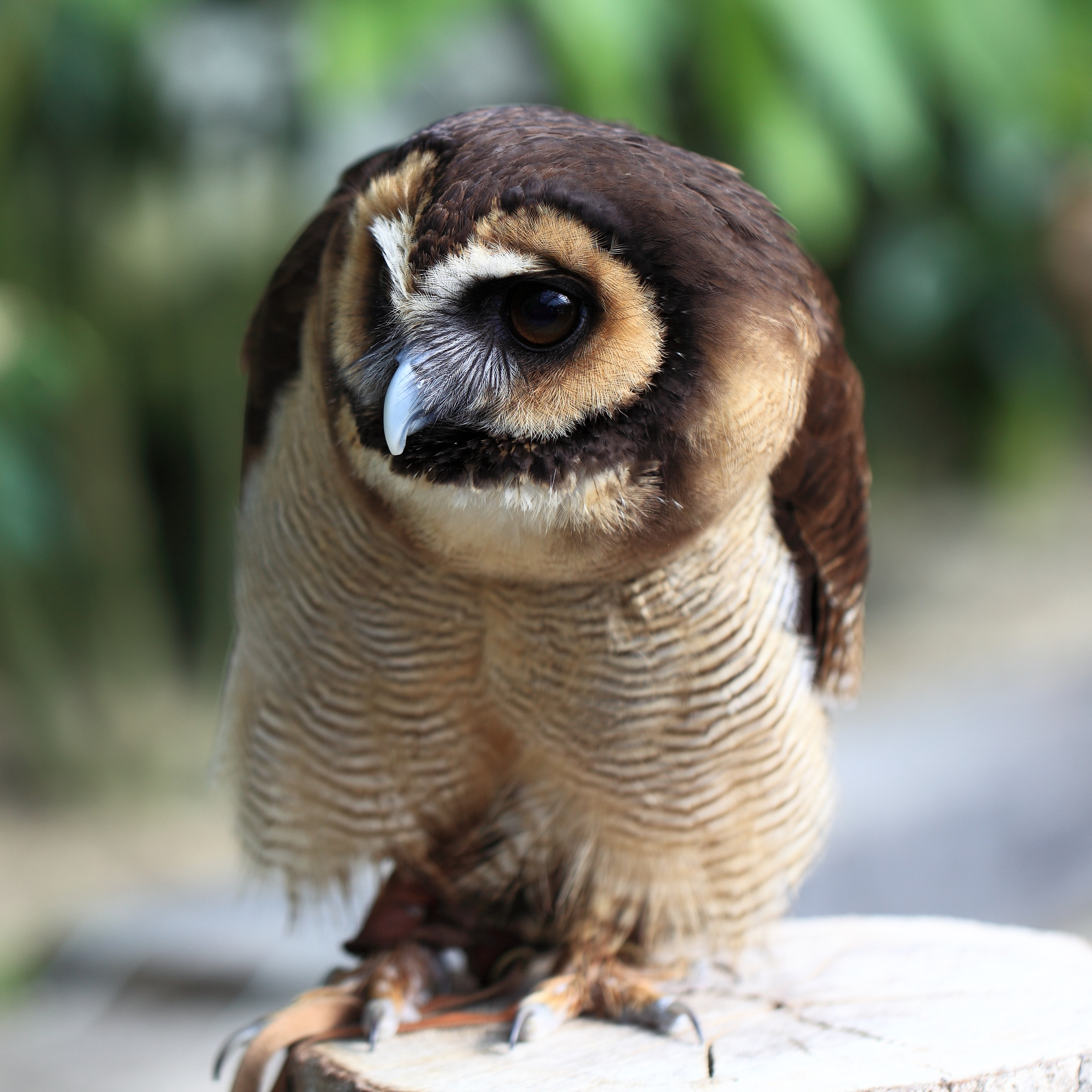 A Brown Wood-owl in Kakegawa Kacho-en, Kakegawa, Shizuoka, Japan.